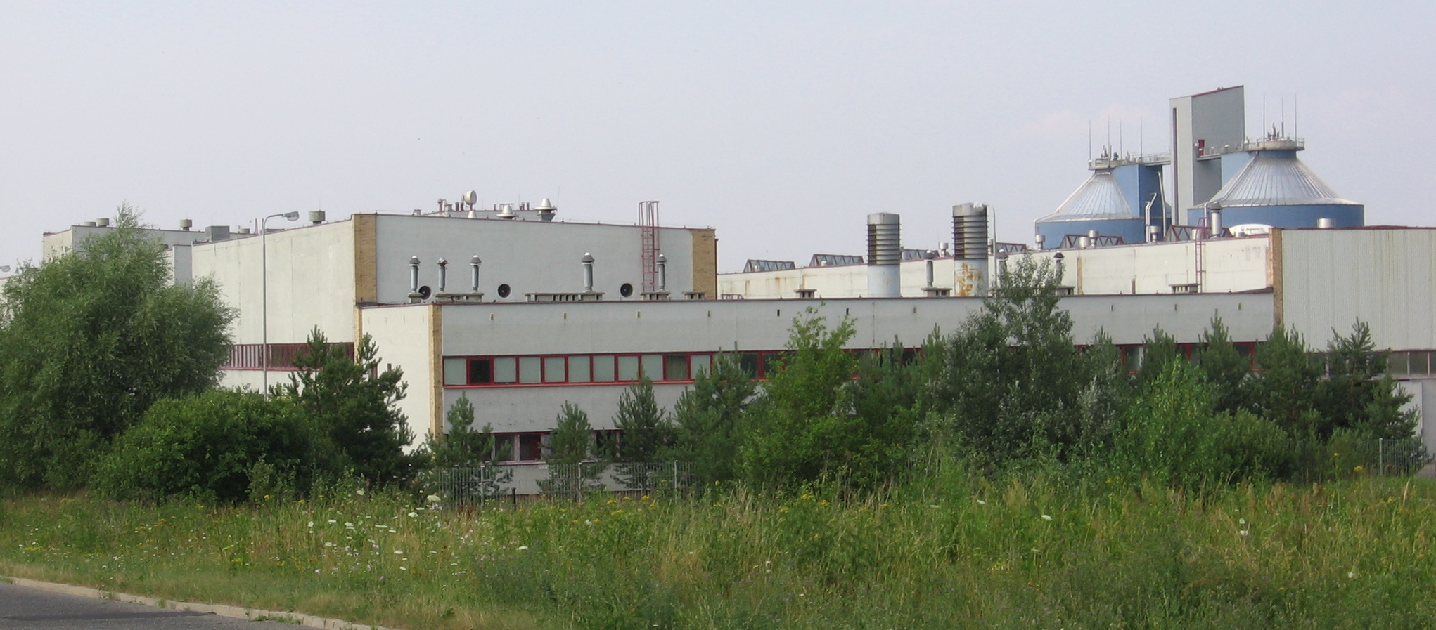 sludge refinery of city Wrocław, Poland